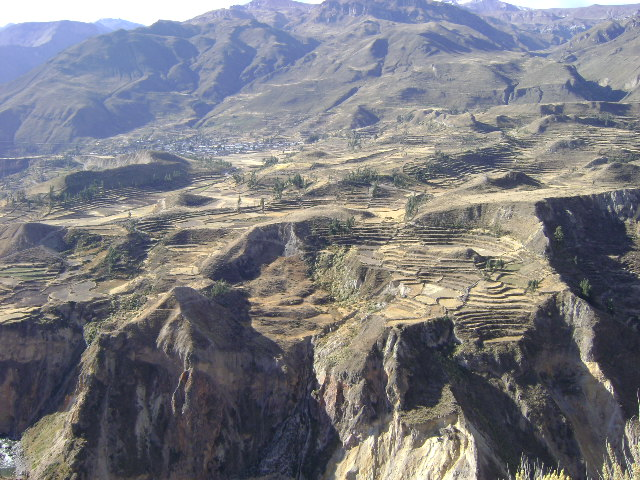 View of the Colca Canyon in Peru, 2008.